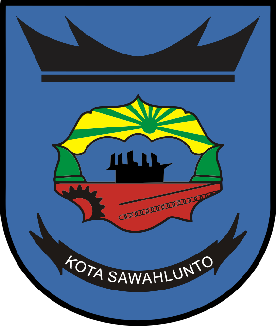 Lambang Kota Sawahlunto